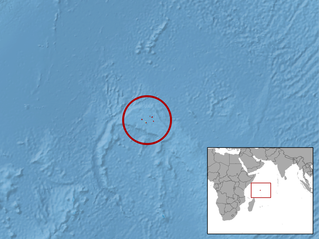 geographic distribution of Janetaescincus veseyfitzgeraldi